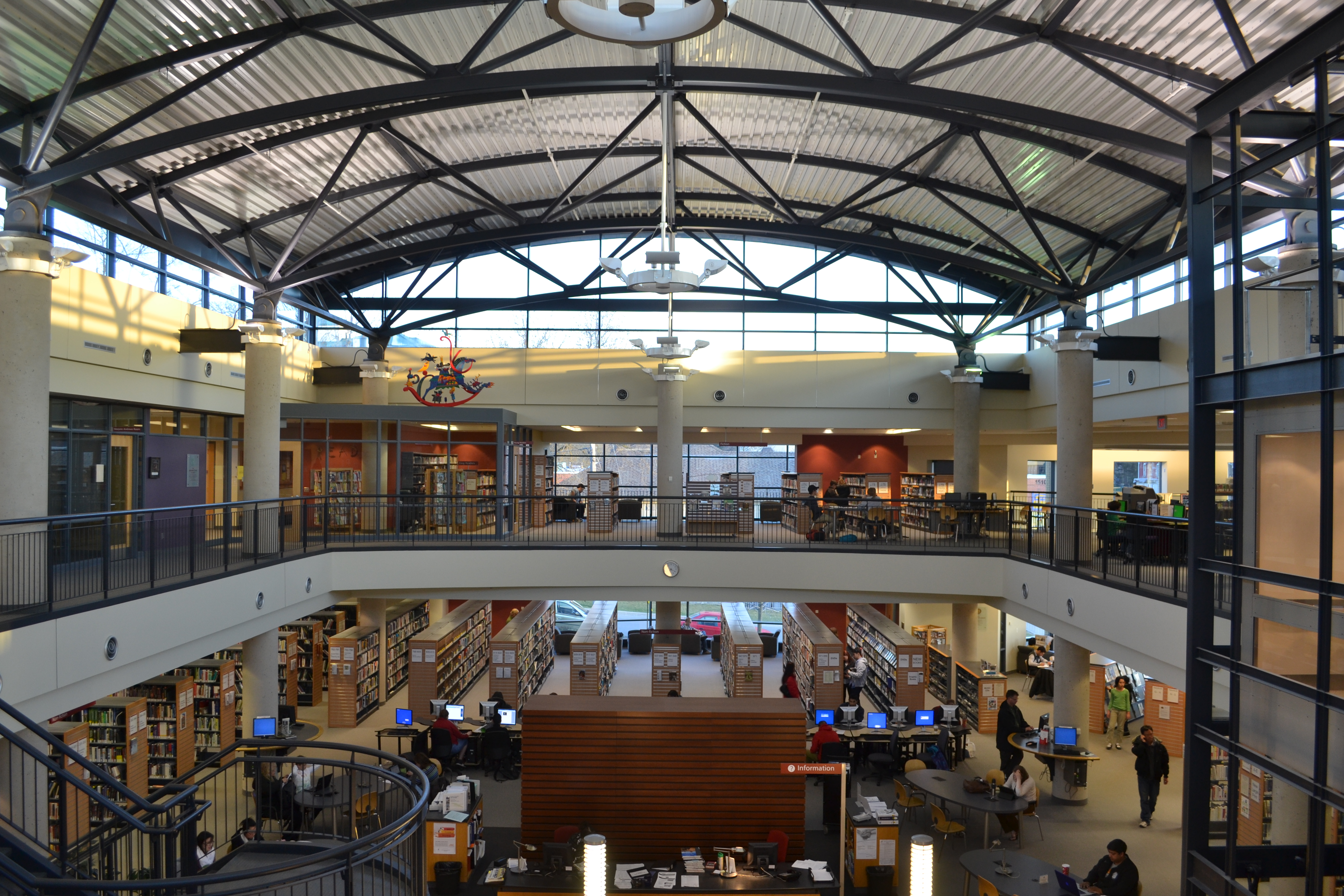 Aurora Public Library